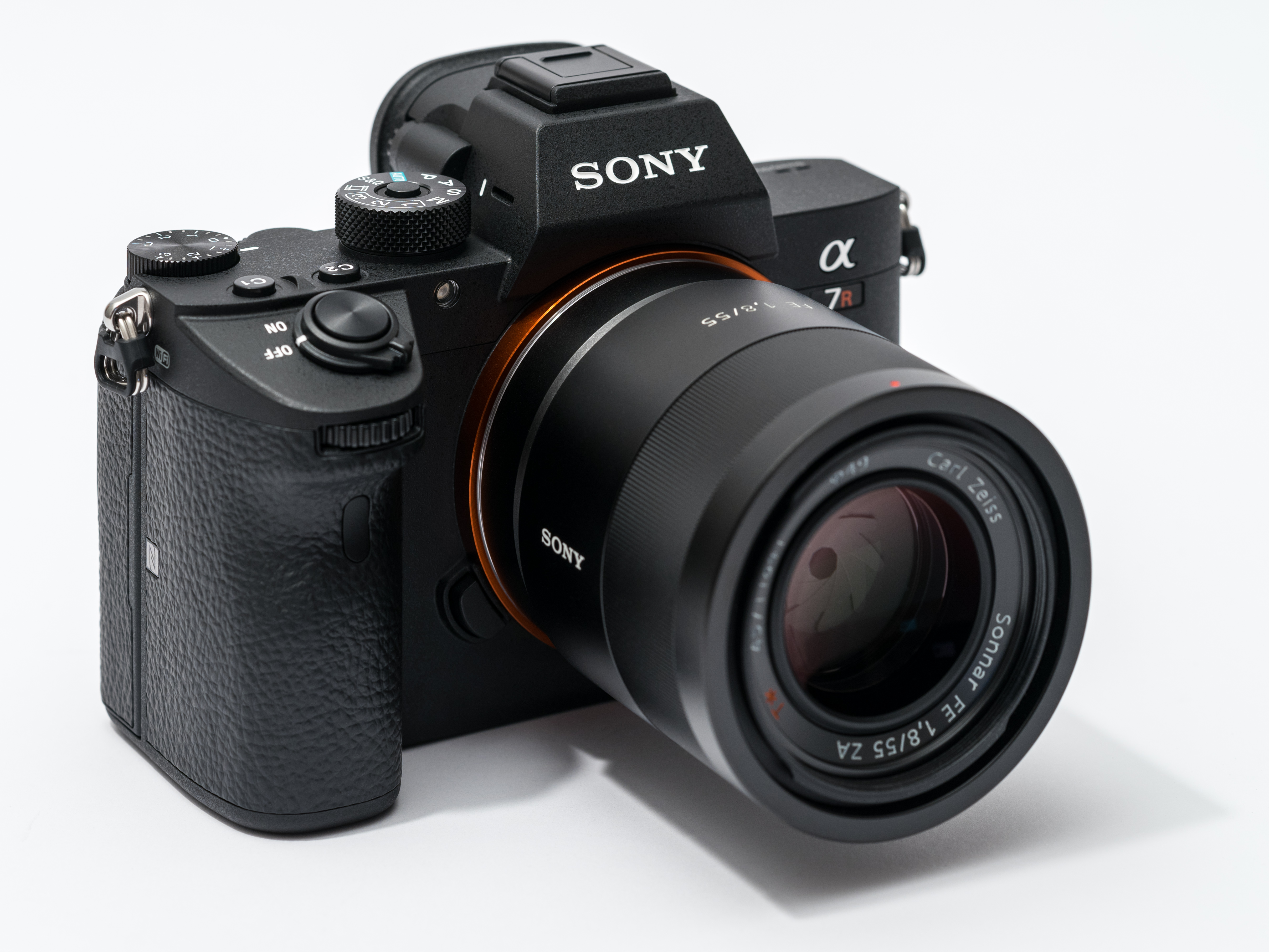 Sony Alpha ILCE-7RM3 full frame camera (mirrorless interchangeable-lens camera) with Zeiss lens Sonnar T* FE 1,8/55 ZA attached.